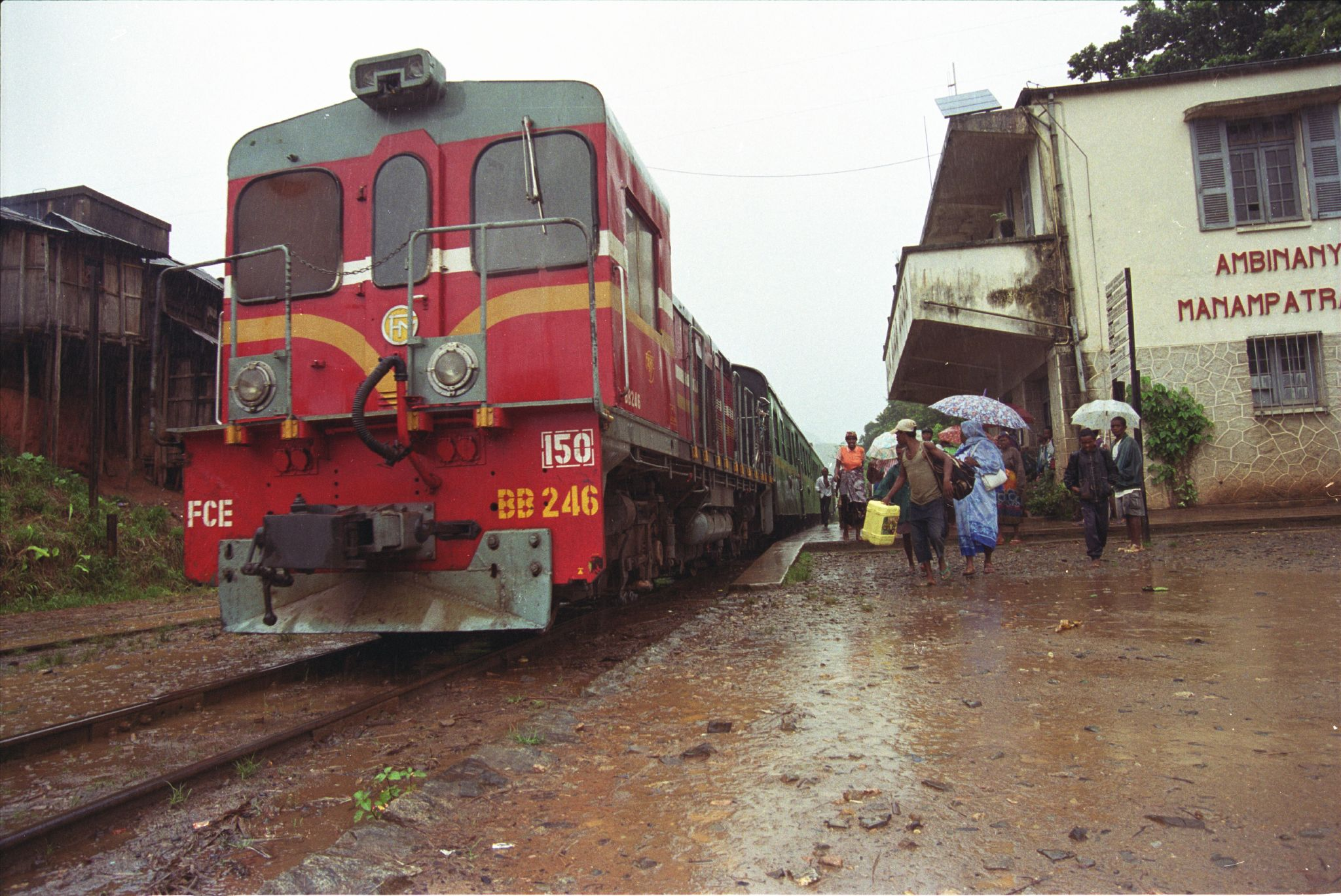 The FEC rail station in Manampatrana, Madagascar. 2004.